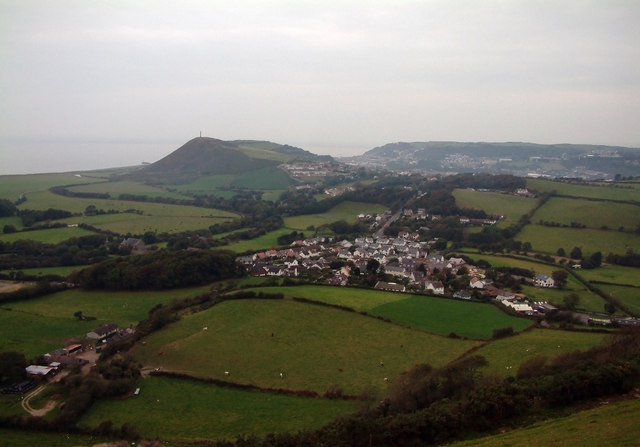 Rhyd-Y-Felin View overlooking Rhyd-Y-Felin, with Aberystwyth and Pen Dinas in the distance